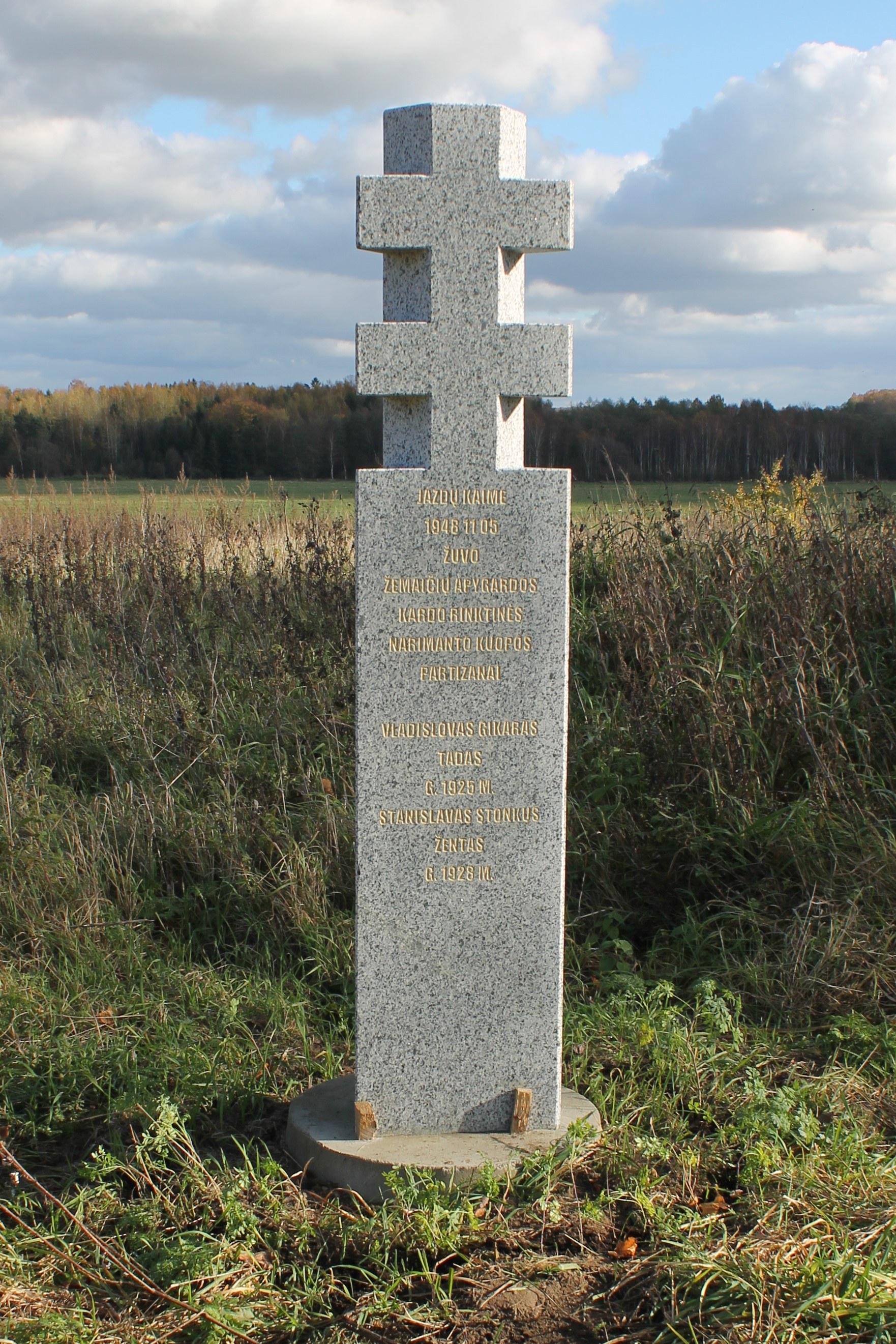 Memorial sign of the Partisans in the village of Negarba, Kretinga district municipality, Lithuania